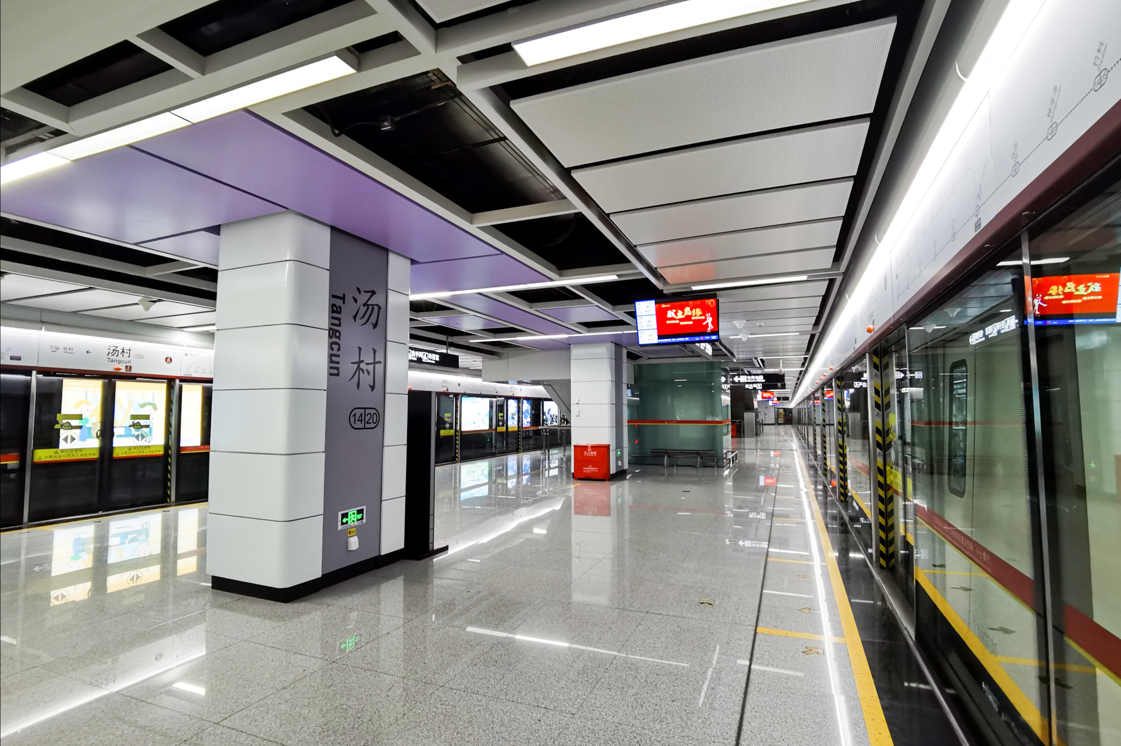 广州地铁汤村站